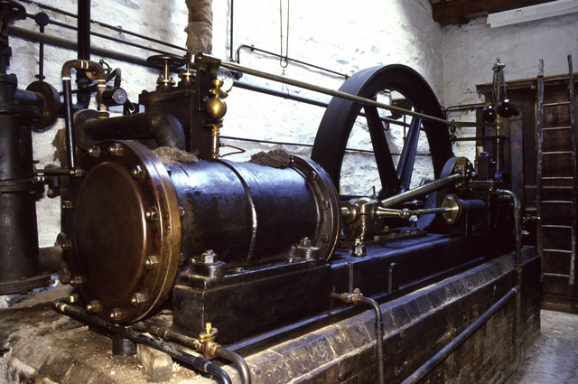 Steam engine, Stott Park Bobbin Mill (near to Lakeside, Cumbria, Great Britain) By W Bradley, Gooder Lane Ironworks, Brighouse. Restored to steam and a very pleasant sight.